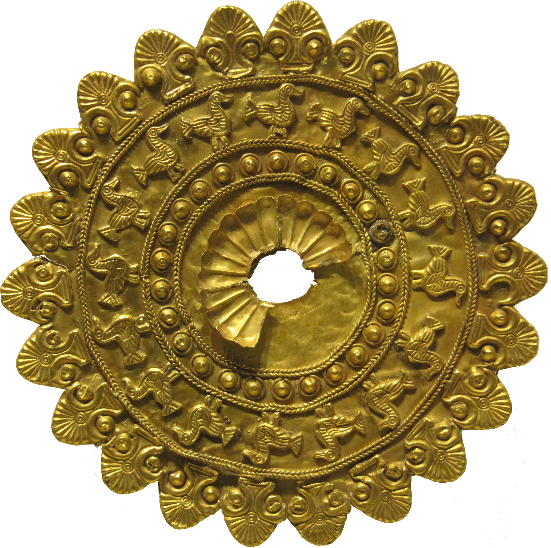 Iberian royal tray